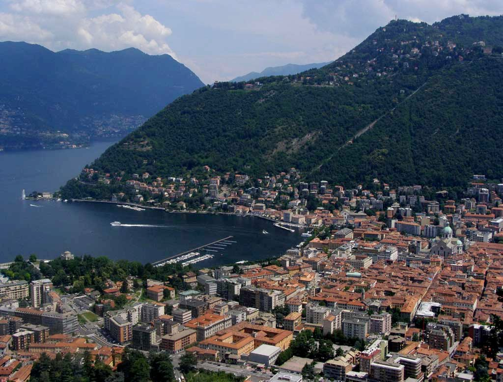 Landscape of Como